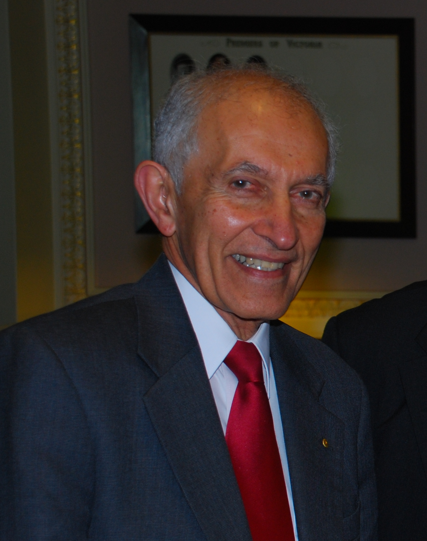 The Governor of Victoria, Professor David de Kretser, A.C. launched Climate Code Red in Parliament House in Melbourne, Victoria, on July 17, 2008.